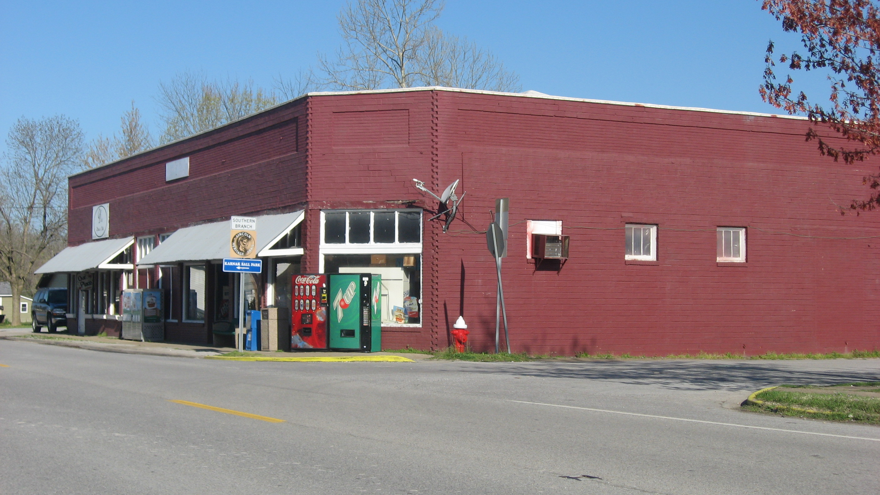 A commercial building on the northwestern corner of the junction of Washington (Illinois Route 169) and First Streets in downtown Karnak, Illinois, United States.